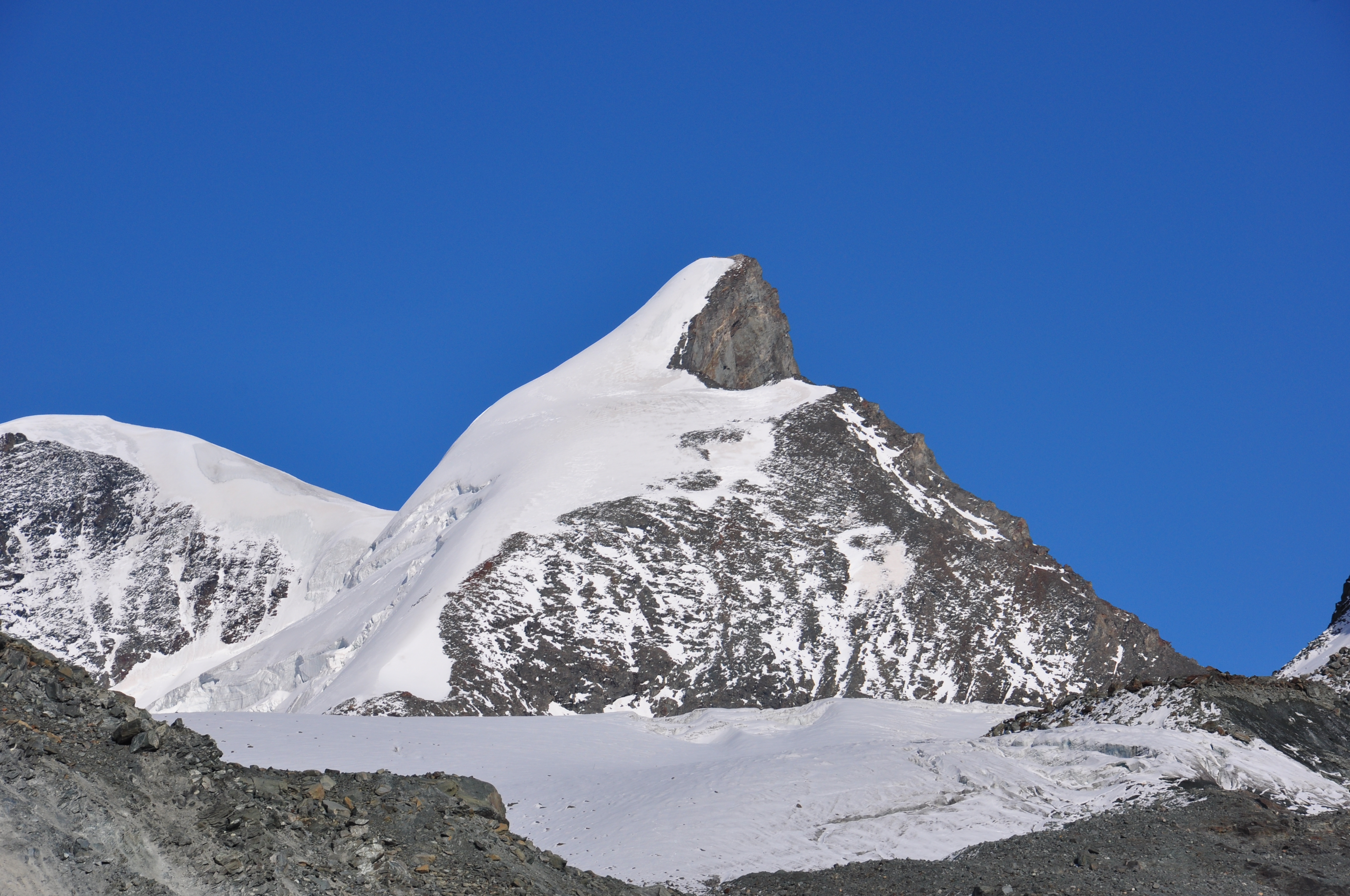 Adlerhorn (3988m) from west.